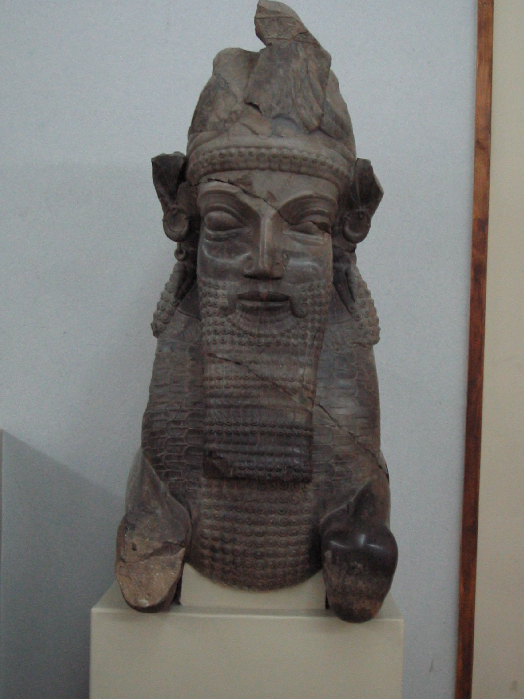 Sphynx in the Archeological museum in Teheran. Other version available : Image:Sphynx_muze_iran_bastan_teheran.png (transparent background; luminosity, etc.)